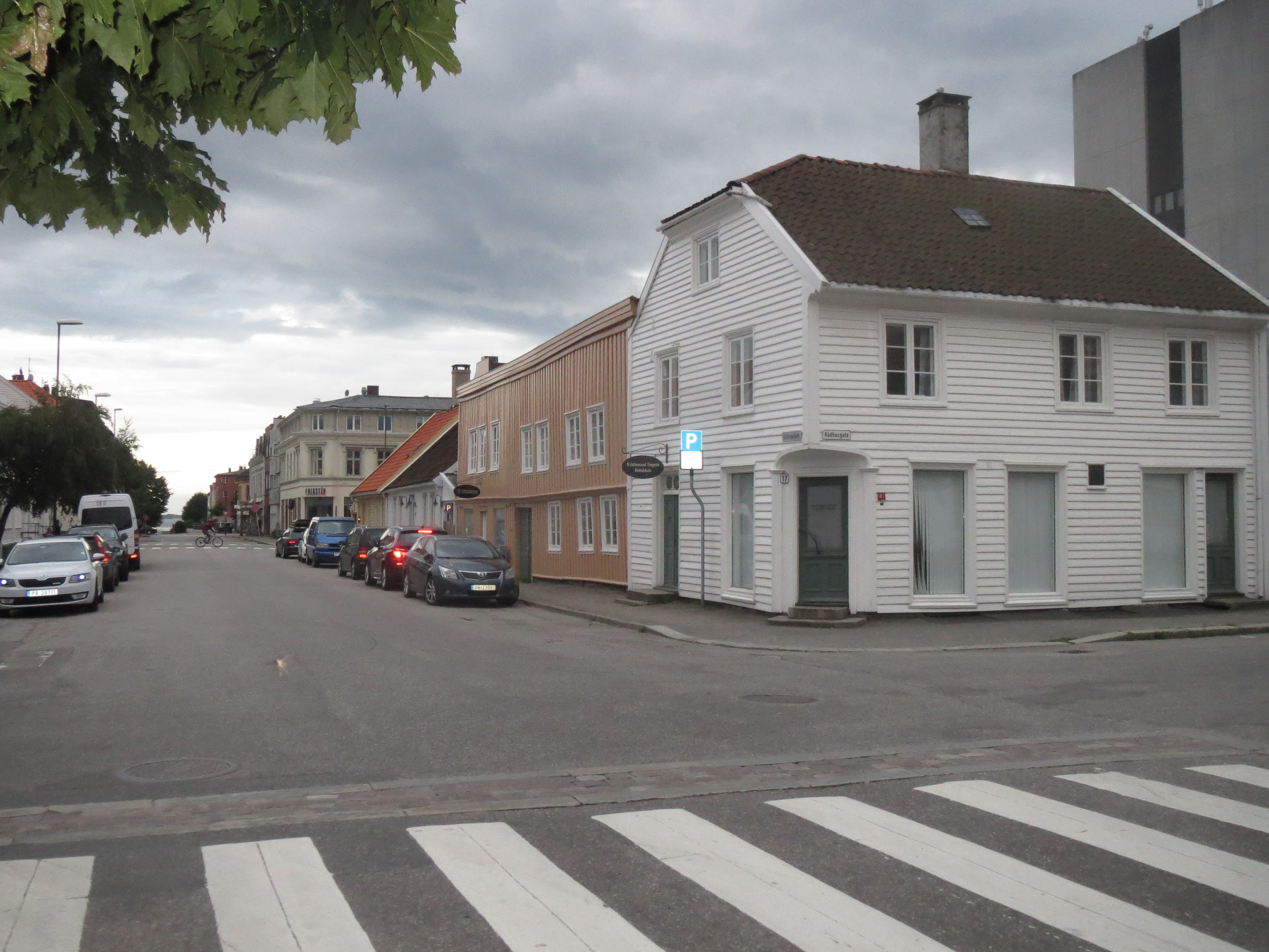 Corner of Rådhusgata and Holbergs gate 17*, Kristiansand, Norway, 2016.